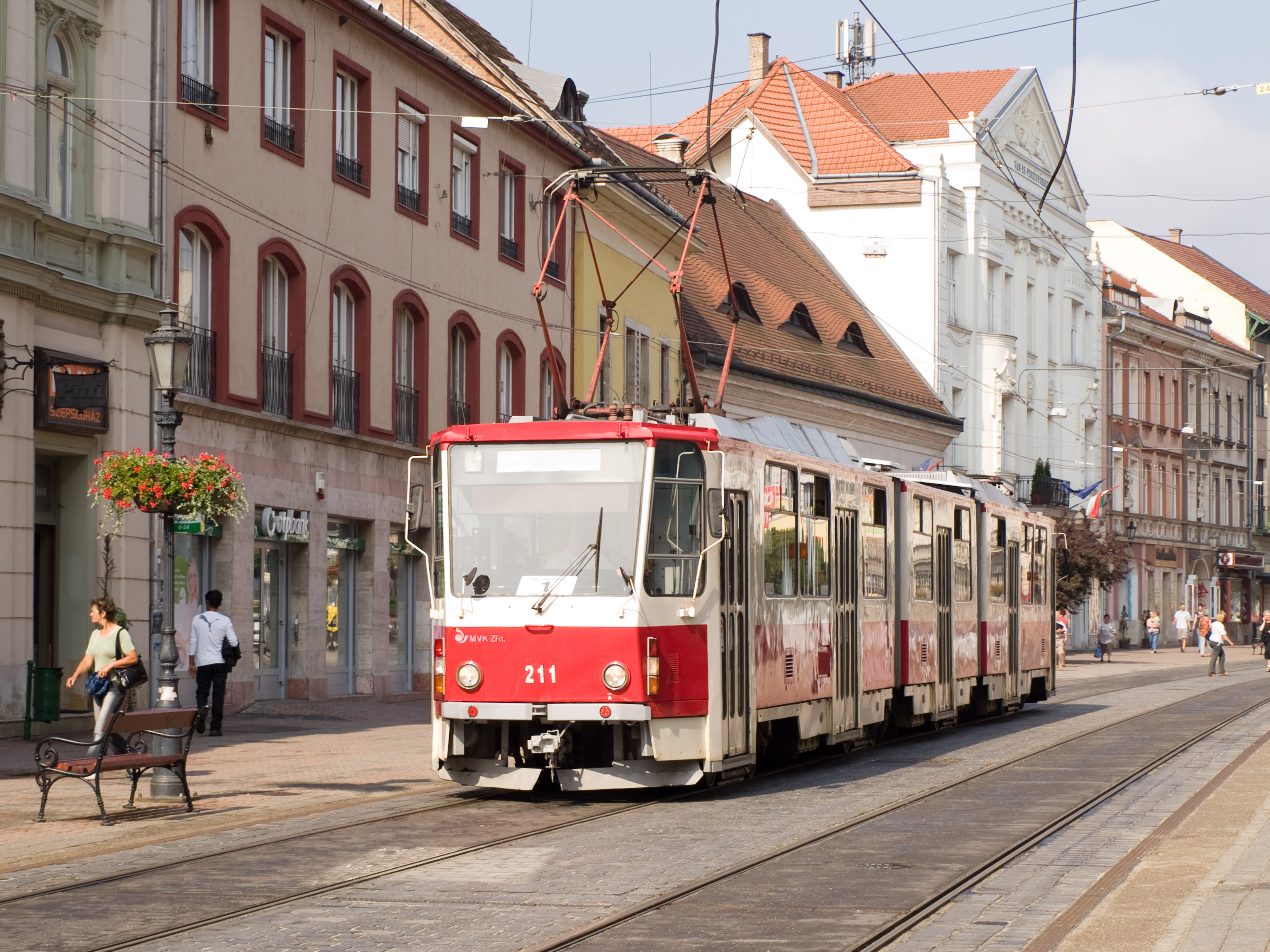 Tatra KT8D5, Széchenyi István street, Miskolc